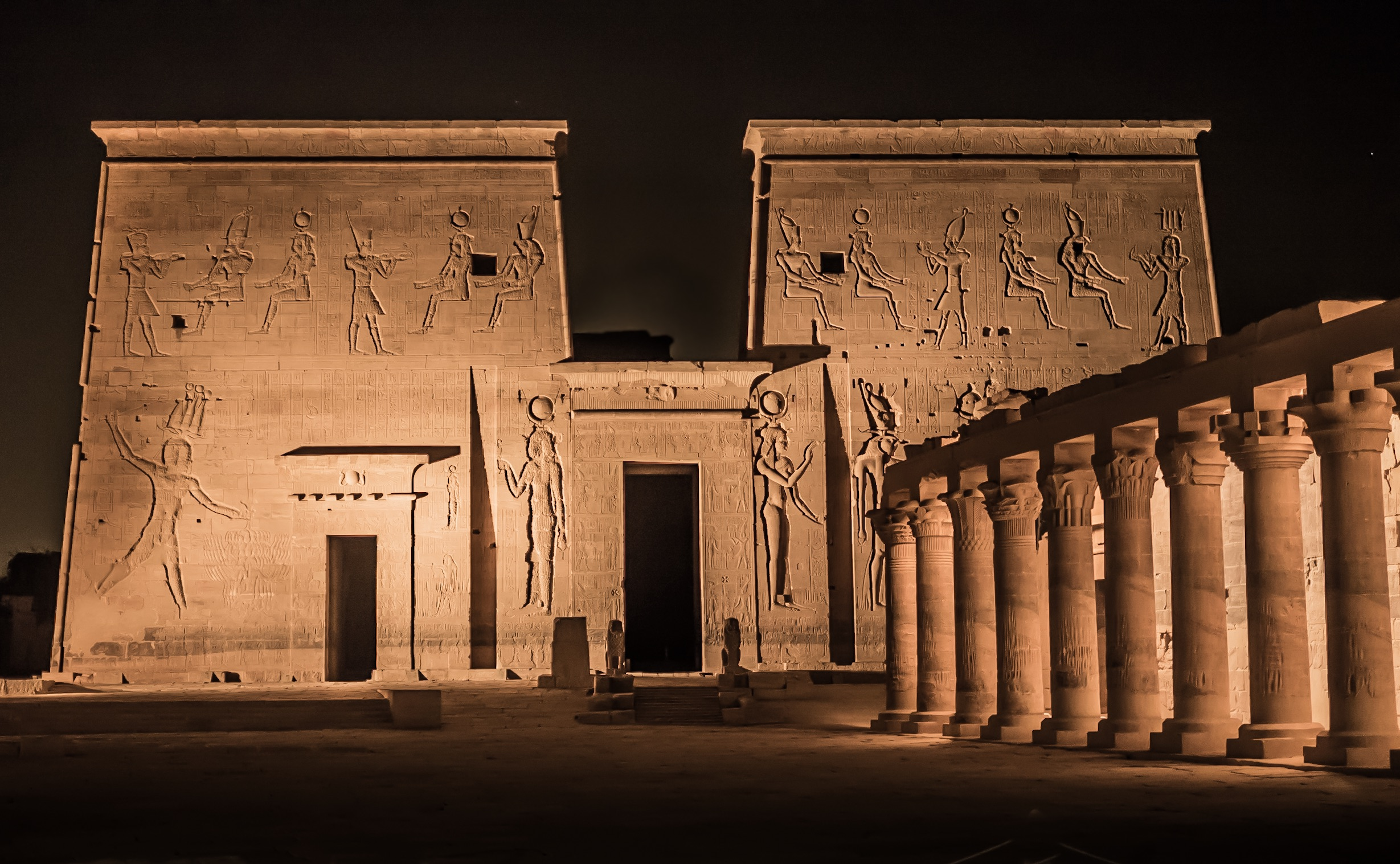 Philae temple at night in Aswan